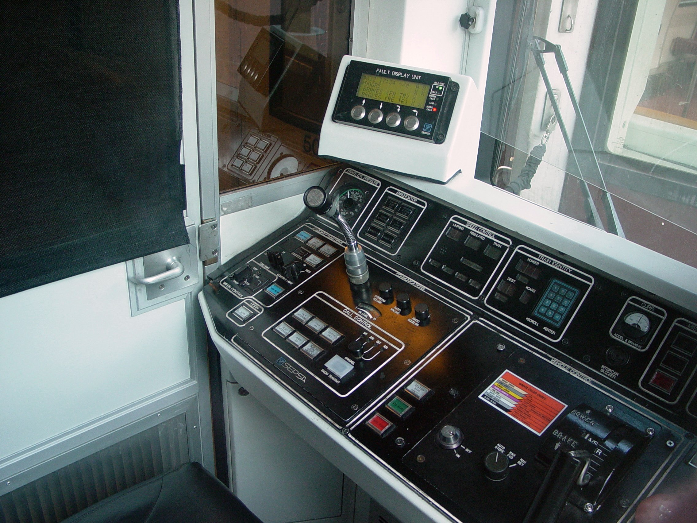 Cab controls on WMATA 5000-Series rail car.